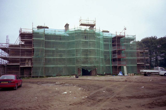 Archerfield House During Restoration